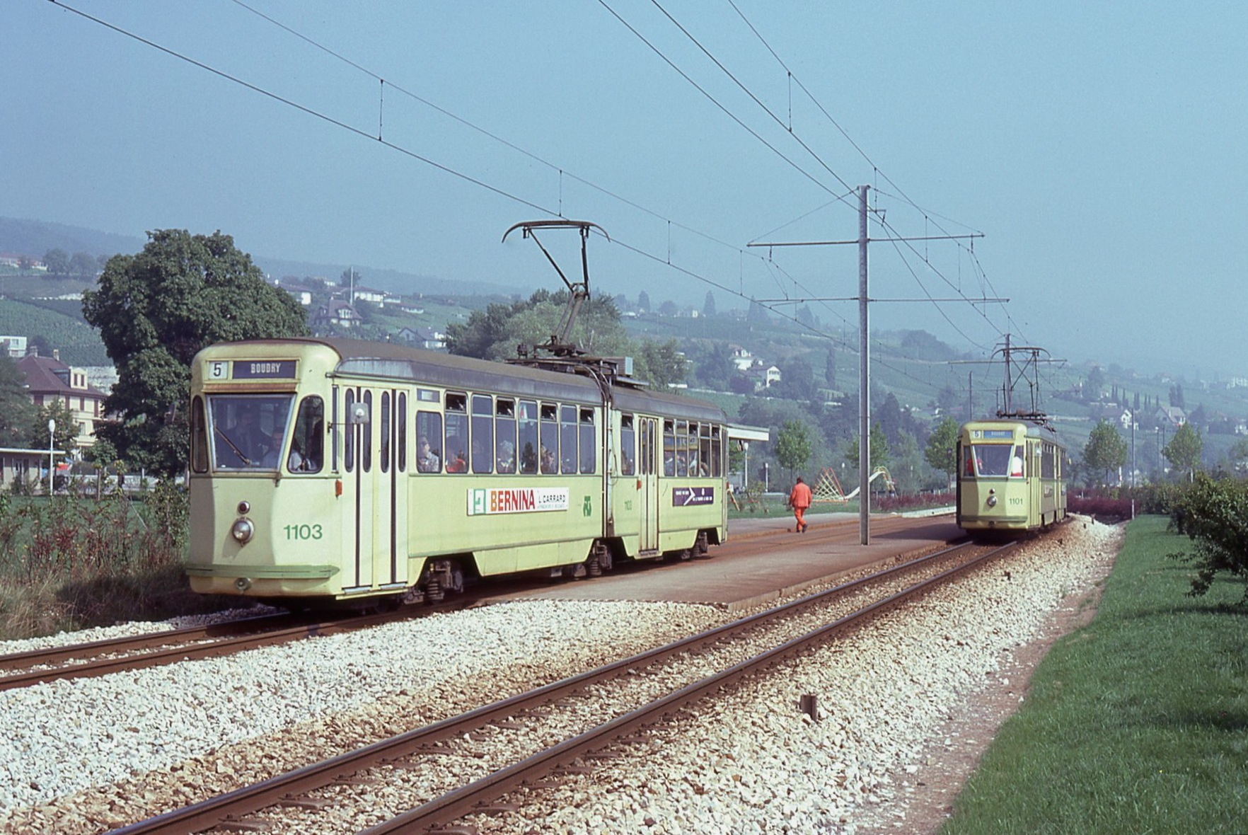 On line 5 of the Neuchâtel tram system, ex-Genova cars 1103 and 1101 (built in 1942 by Breda) at Auvernier station, having just passed. Car 1103, on the left, is bound for Boudry.